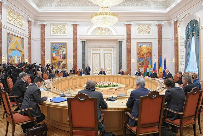 Meeting of the Heads of State of the Customs Union with President of Ukraine and representatives of the European Union.